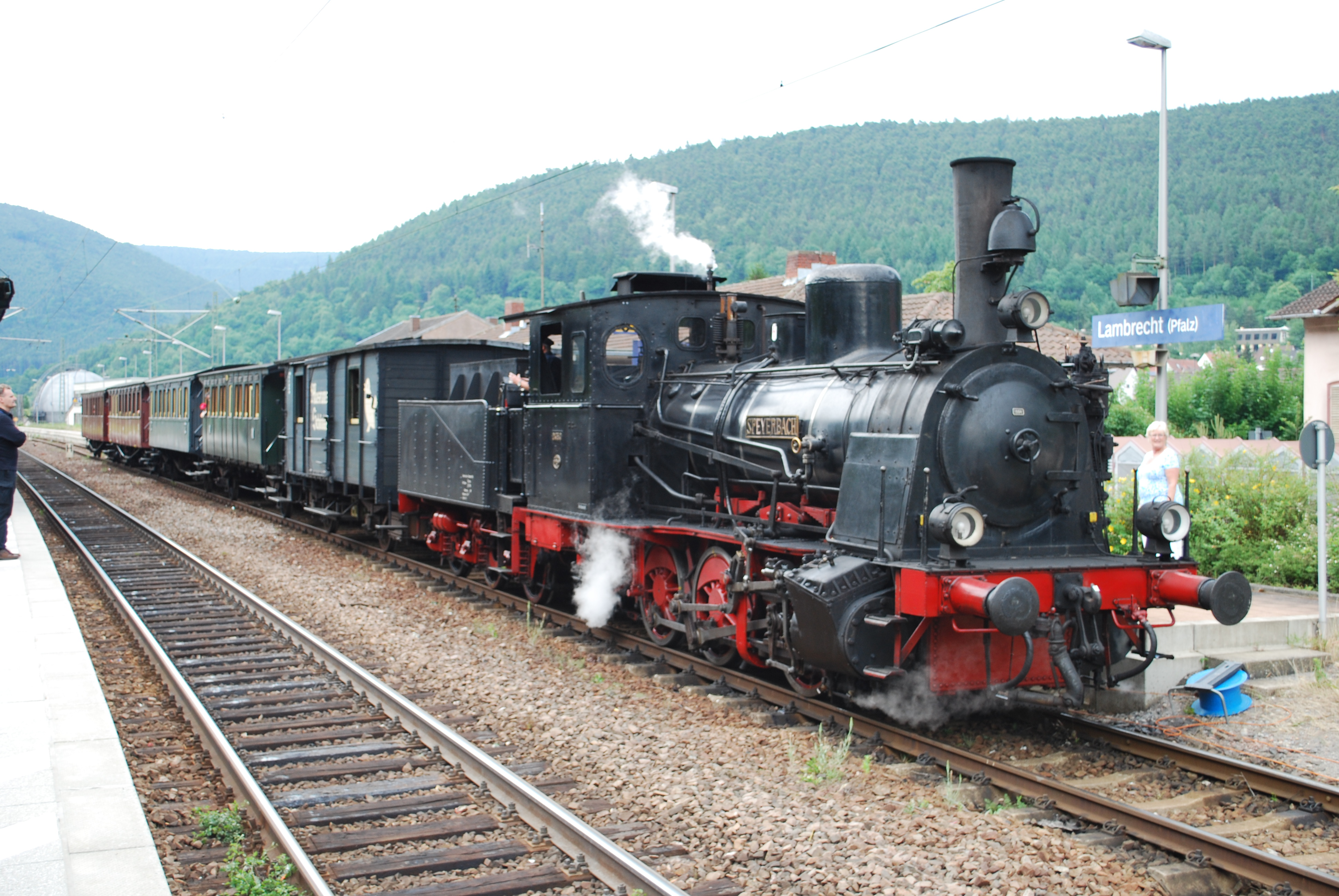 Industrial 0-6-0 "Speyerbach", Humboldt No.210 of 1904, departs Lambrecht bound for Elmstein, on the Kuckusbahnel, 6/11.